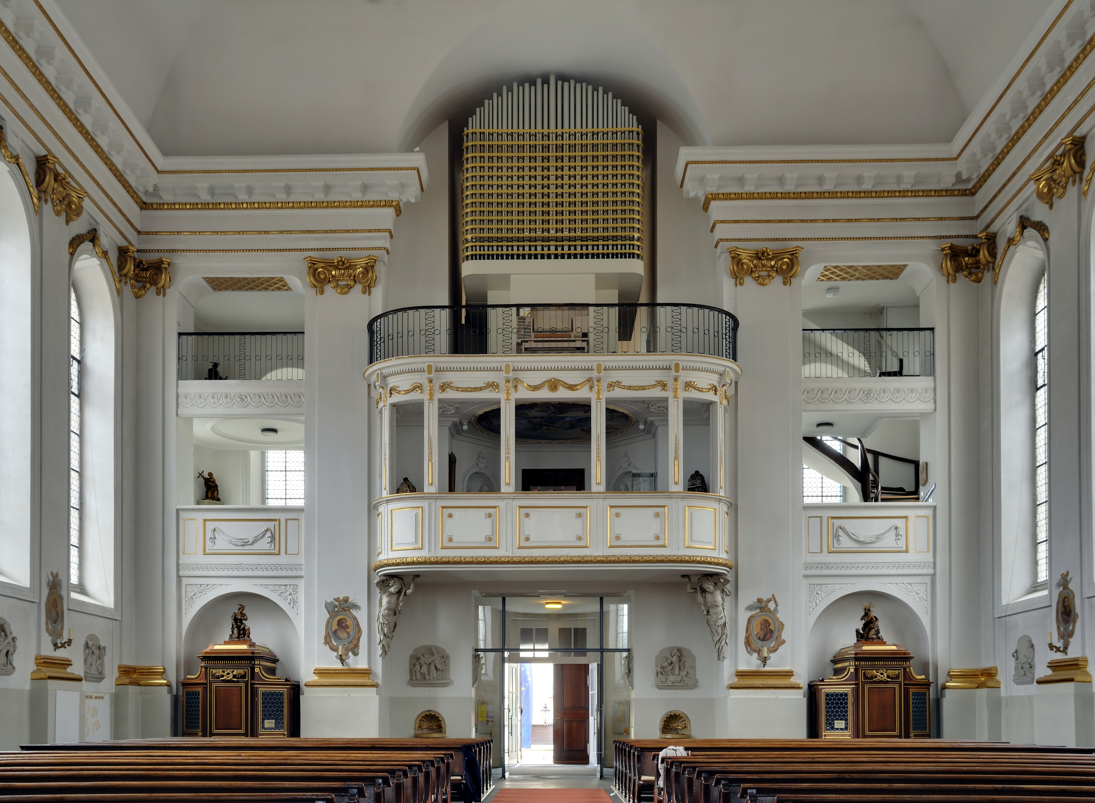 Hechingen: Collegiate Church